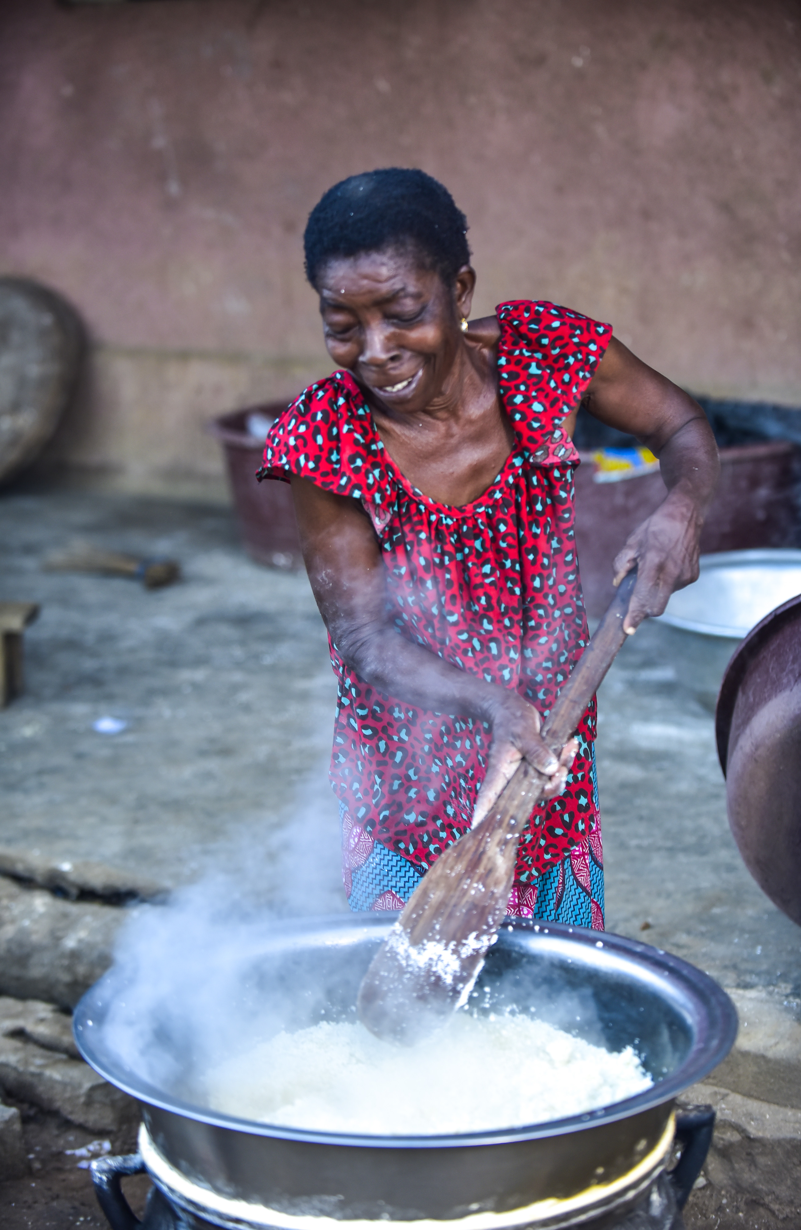 "Attiéké" is a traditionnal ivorian food. This old woman makes "Attiéké" with passion and love. This is an image of "African people at work" from Ivory Coast